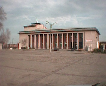 Chitalishte Sveti Kiril and Metodiy, Rakovski